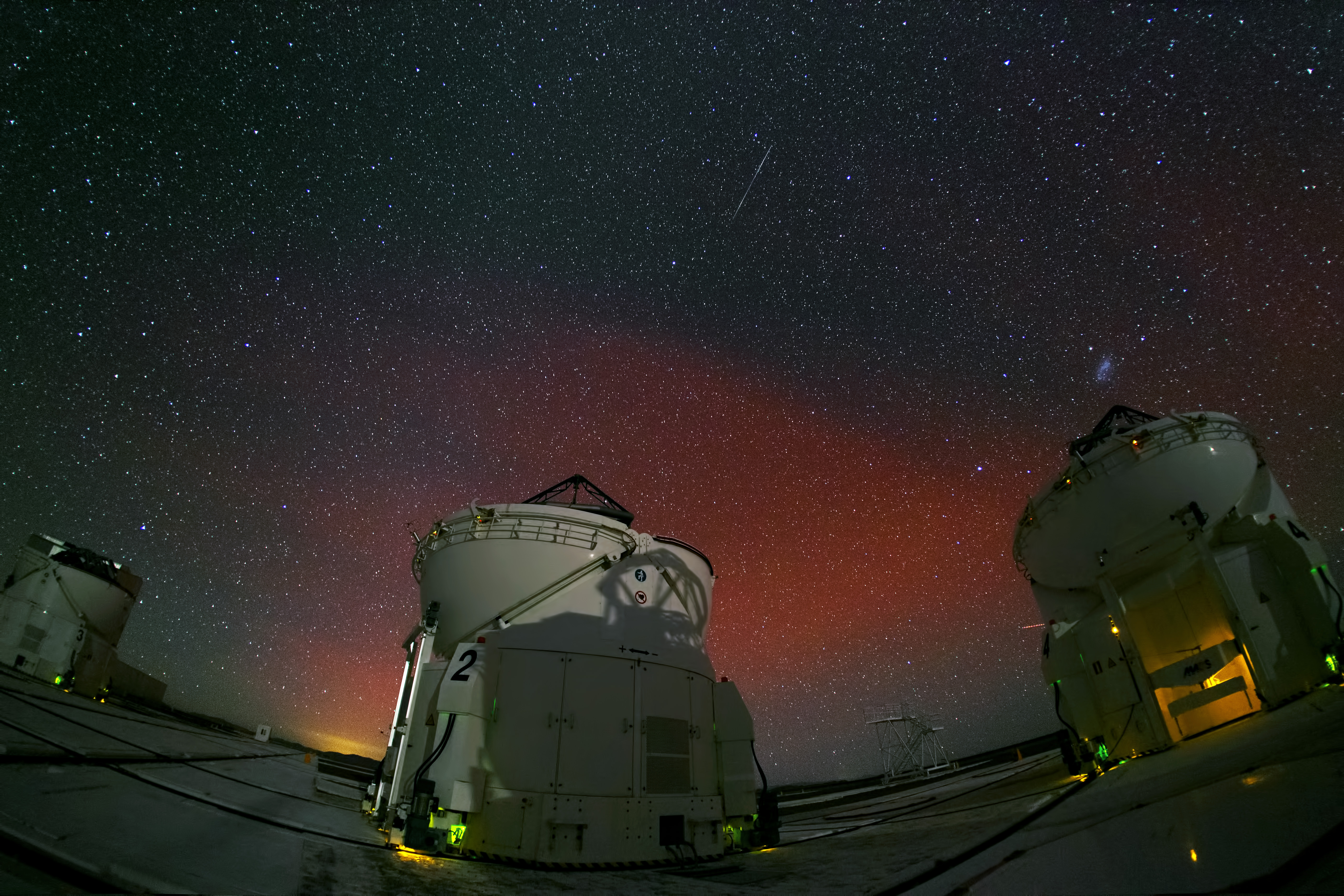 In this ghostly night picture, taken at Paranal Observatory, we can see three out of four VLT Auxiliary Telescopes. Each one of them is a 1.8-metre telescope designed to work along with the other three as a single telescope, thanks to the VLT Interferometer. In the background, the quiet beauty of the Atacama sky is enhanced by a red aurora-like shimmer, called airglow, which is caused by light-emitting chemical reactions in the atmosphere. Normally, those emissions are not so strong, but the night this image was taken they were unusually bright, producing this unusual picture.